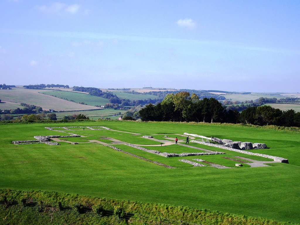 The foundations of Old Sarum Cathedral in Wiltshire, England, United Kingdom